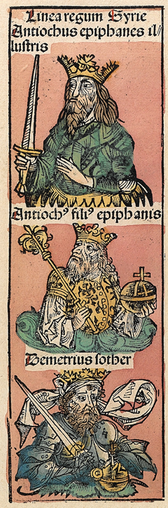 This is a part of a scan of an historical document: Title: Schedelsche Weltchronik or Nuremberg Chronicle